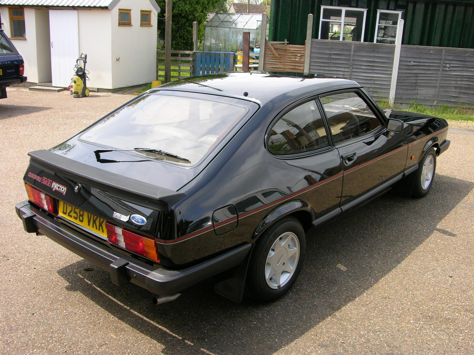 1987 Ford Capri